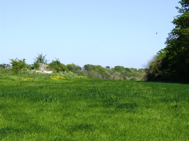 Lugbury long barrow The rise of the ground to the long barrow can be seen. There are three main stones here, one flat and two standing at the far end. The woodland to the right is appropriately named Three Stones Plantation.